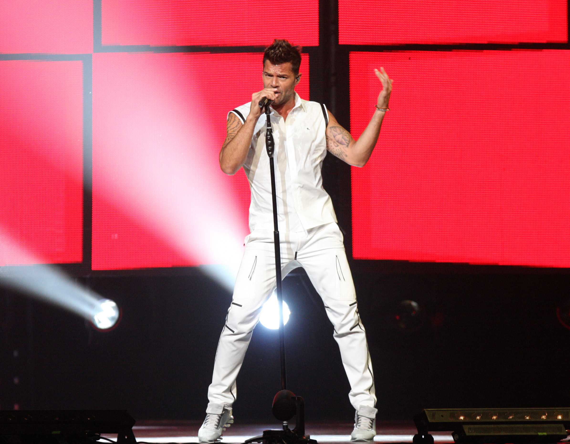 Ricky Martin @AllPhones Arena Sydney Australia